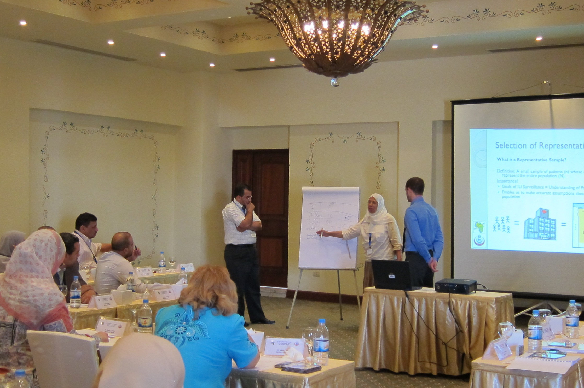 AIN SOKNAL, Egypt (Sept. 22, 2011) Medical personnel participate in the first Influenza-Like-Illness Sentinel Surveillance Workshop. (U.S. Navy photo/Released)